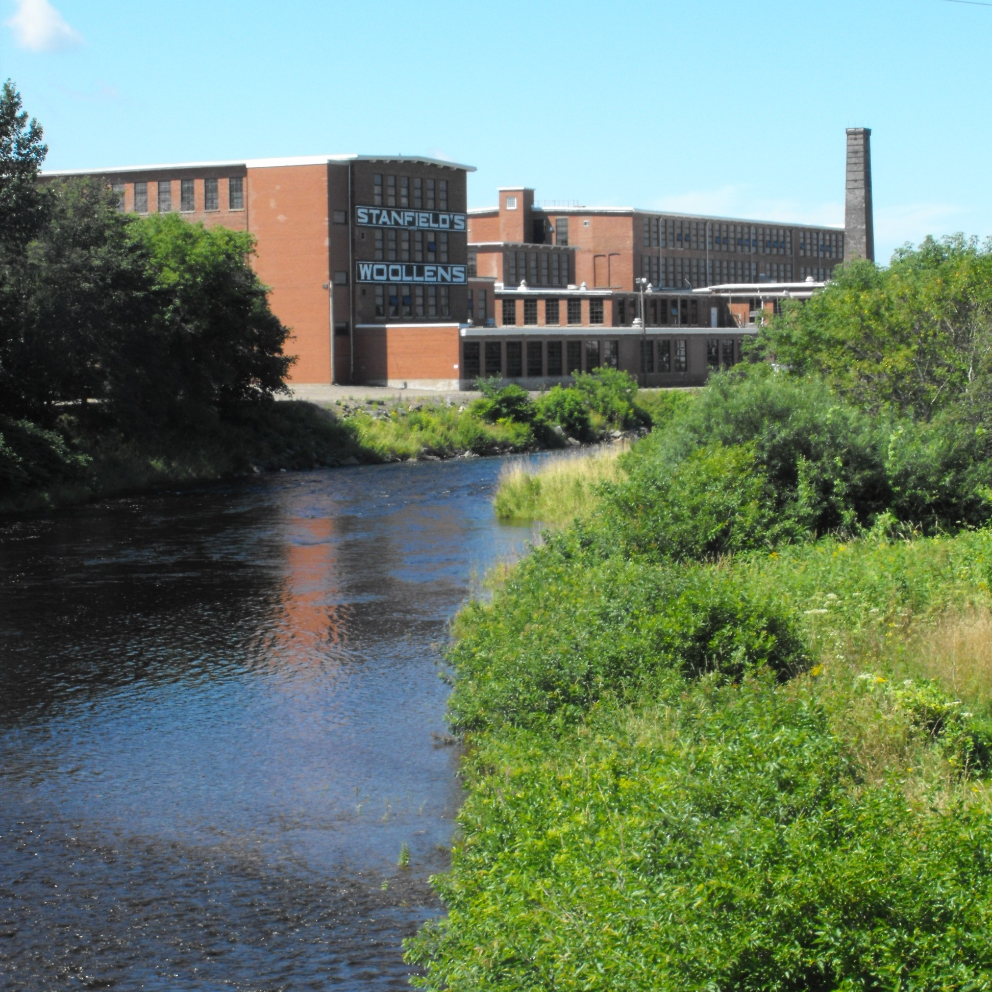 Stanfield's garment factory beside the Salmon River, Truro, Nova Scotia